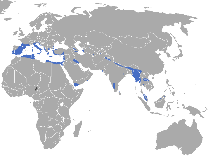 Etruscan Shrew (Suncus etruscus) range (blue — native, red — introduced, dark gray — probably extant origin uncertain)